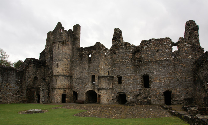 Balvenie Castle, Moray, Scotland - east wing (from the west)